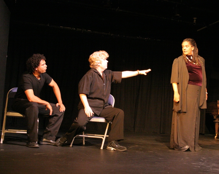 From Left to Right:Oui Be Negroes Marcus Sams, Hans Summers and Shaun Landry performing at The San Francisco Improv Festival 2008